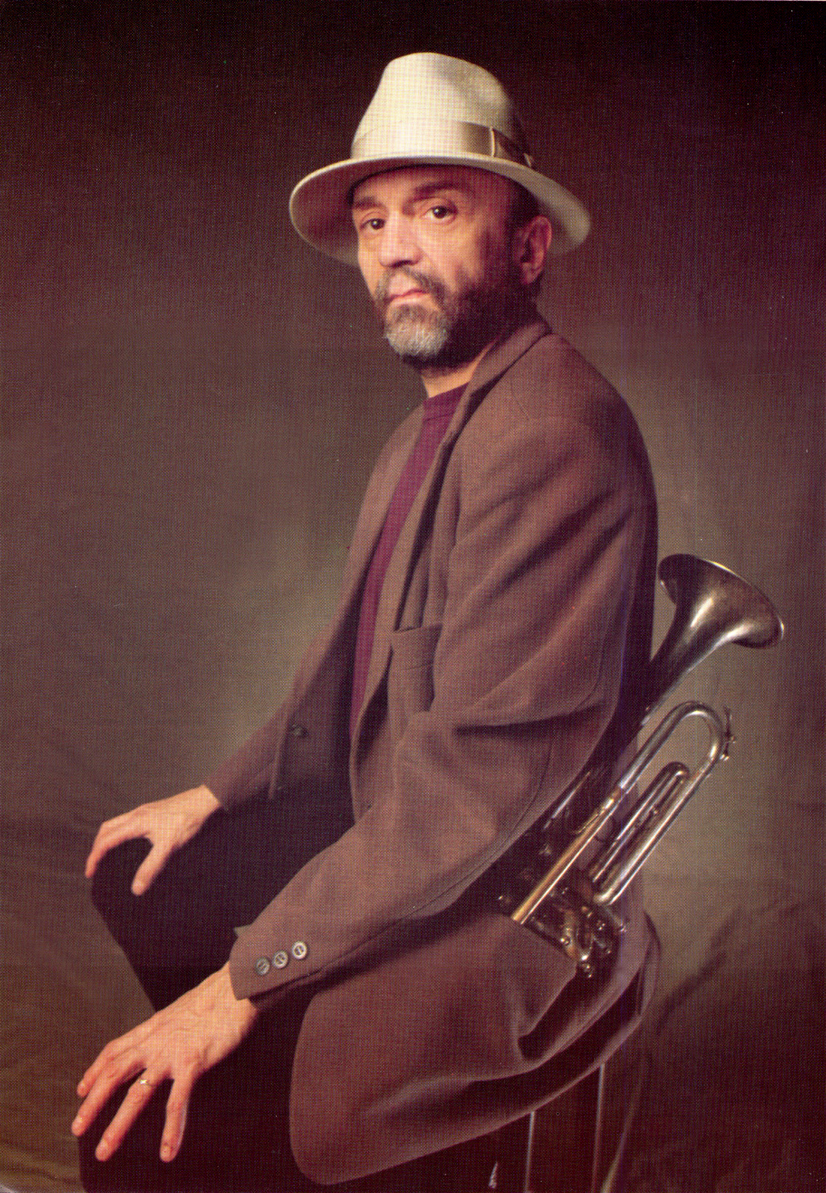 Tomasz Stańko Polish jazz musician